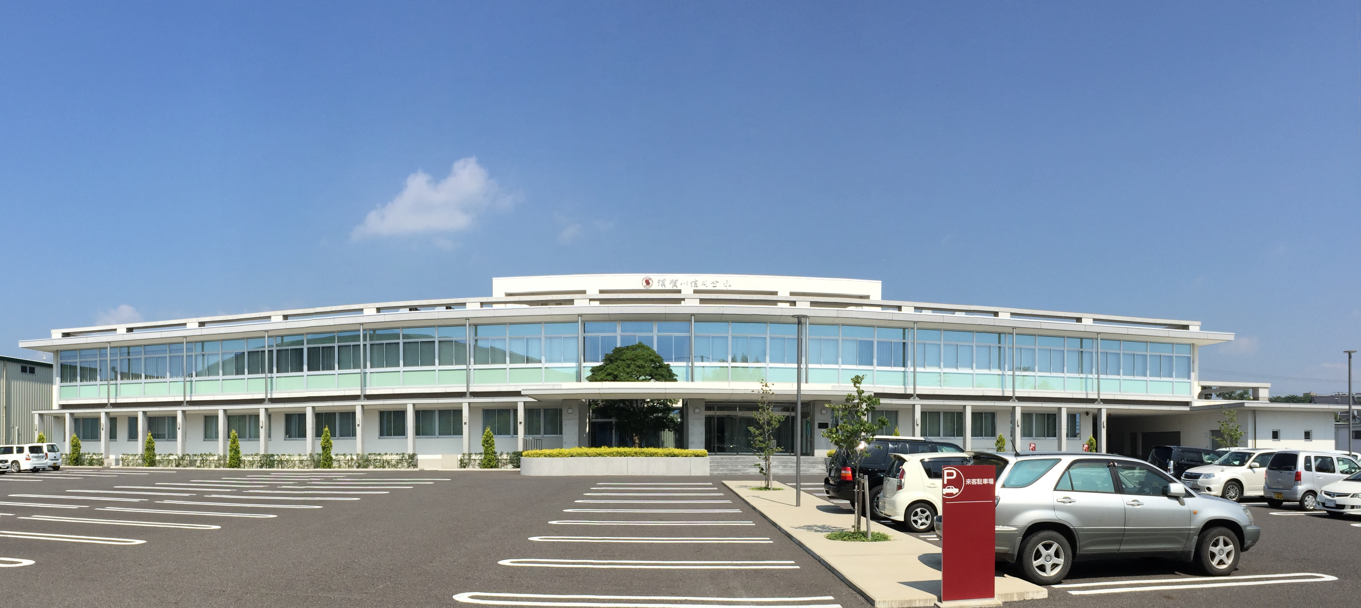 Sukagawa Shinkin Bank Headquarters